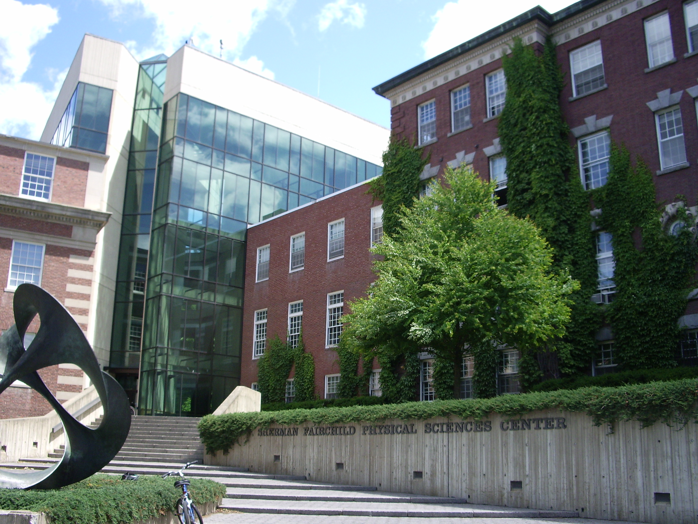 Photograph of the Sherman Fairchild Physical Sciences Center at the campus of Dartmouth College in Hanover, New Hampshire.